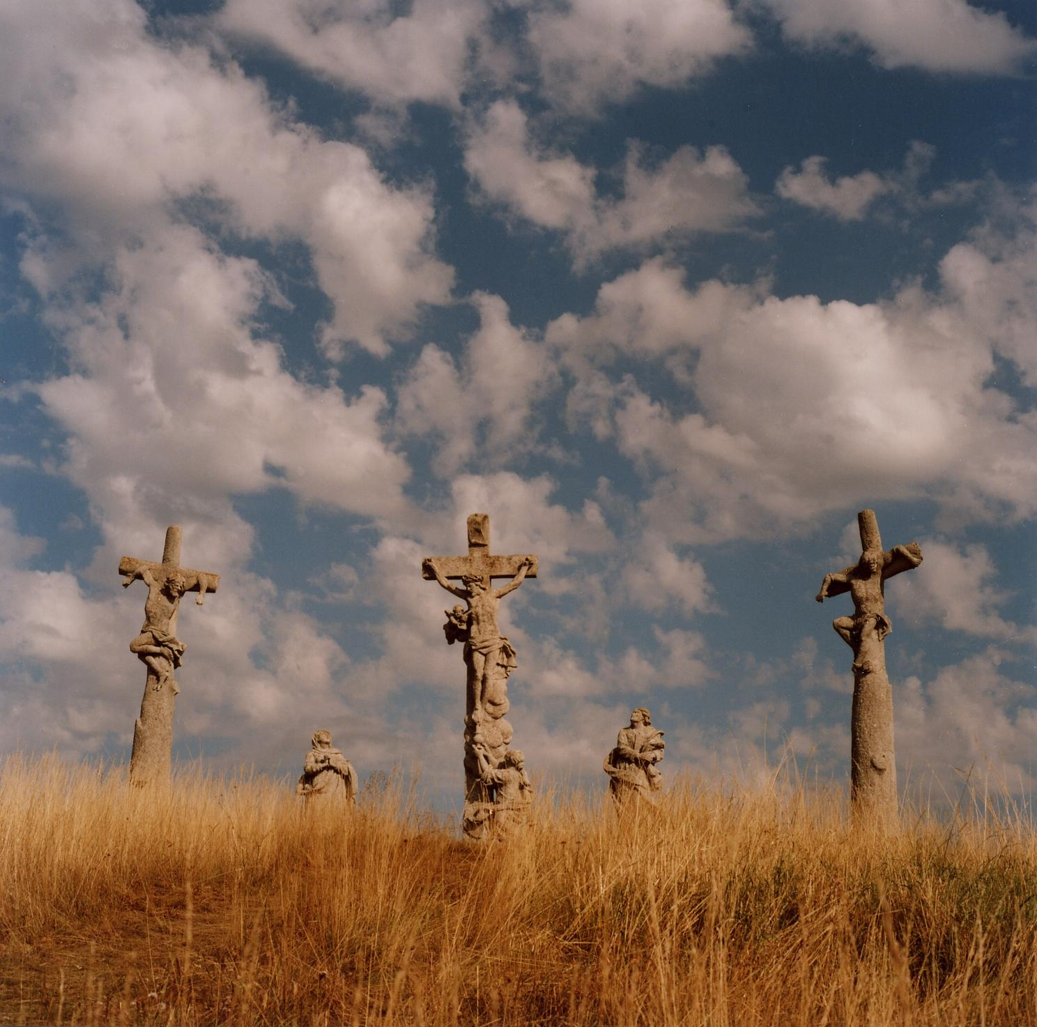 Calvary near Pillersdorf